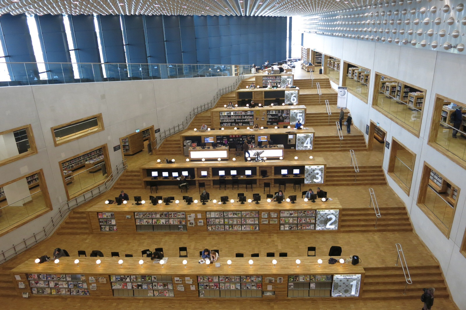 View of the terrace in the Eemhuis library in Amersfoort. Photo is taken from the archive in the same building.